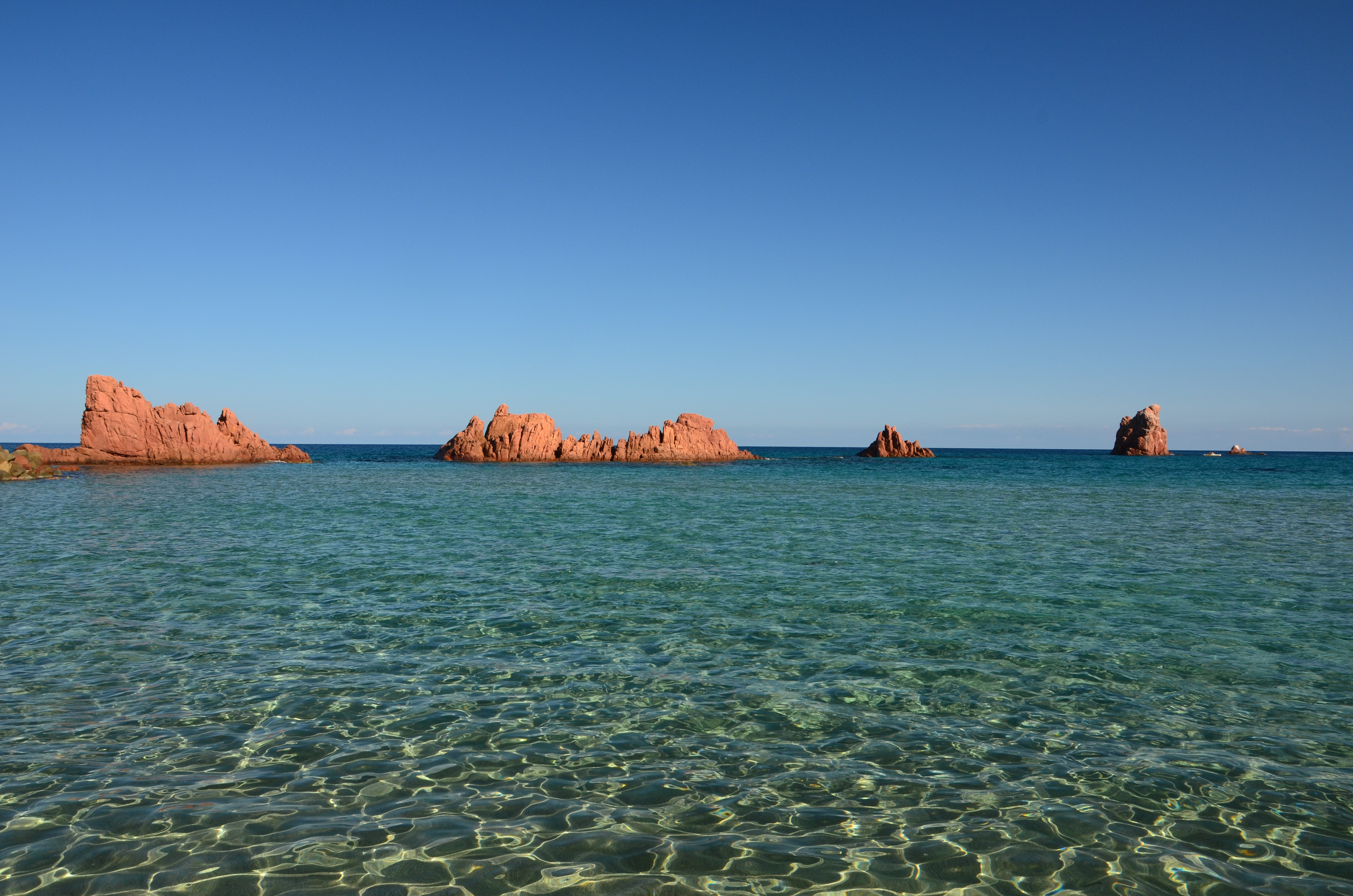 Is Scoglius Arrubius (sardinian; it. “gli scogli rossi”, en.: “the red rocks”) at the Marina di Cea